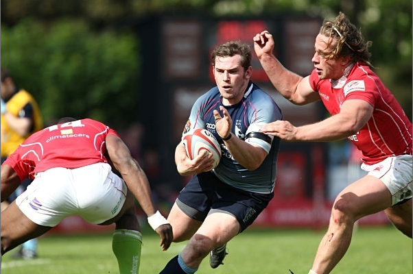 Photo taken of Neil Cochrane playing for Bedford Blues against London Welsh